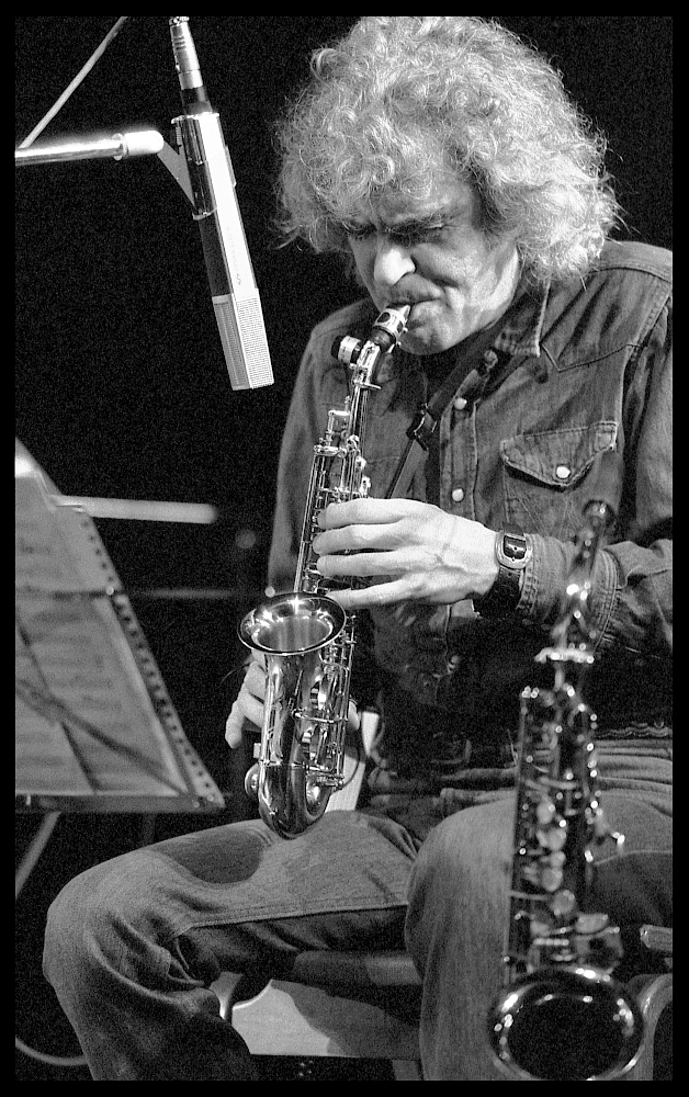 Charlie Mariano with 'Pork Pie', end of the 1970s in the Opernhaus Wuppertal .